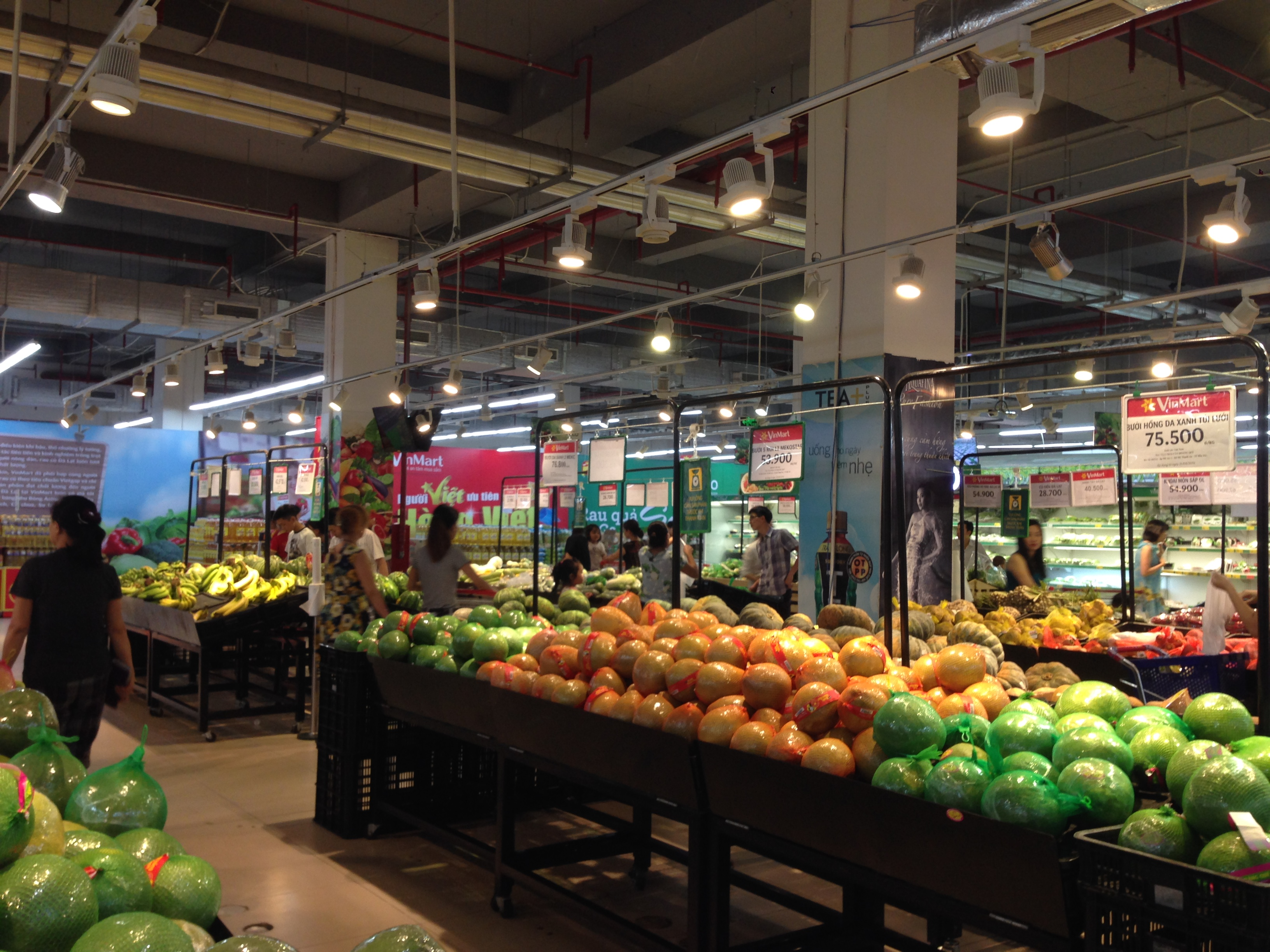 Vinmart super market at Times City